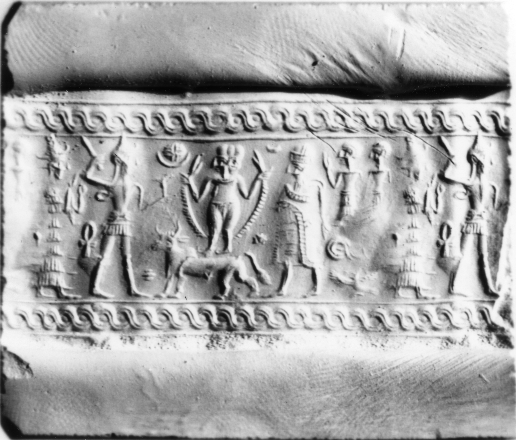 Syrian seals have a diverse range of imagery drawn from Mesopotamia and Egypt. This seal depicts the Syrian "smiting" god and a nude female figure standing on the back of a bull. Behind the smiting god is a Babylonian goddess wearing an Egyptian-style headdress. The elaborate borders and the detailed figures are typical of Syrian seals of this period. An Egyptian ankh and a Mesopotamian sun disk in a crescent illustrate further connections between Syria and its neighbors. The hematite has preserved the crisp edges of the carving in remarkable detail.